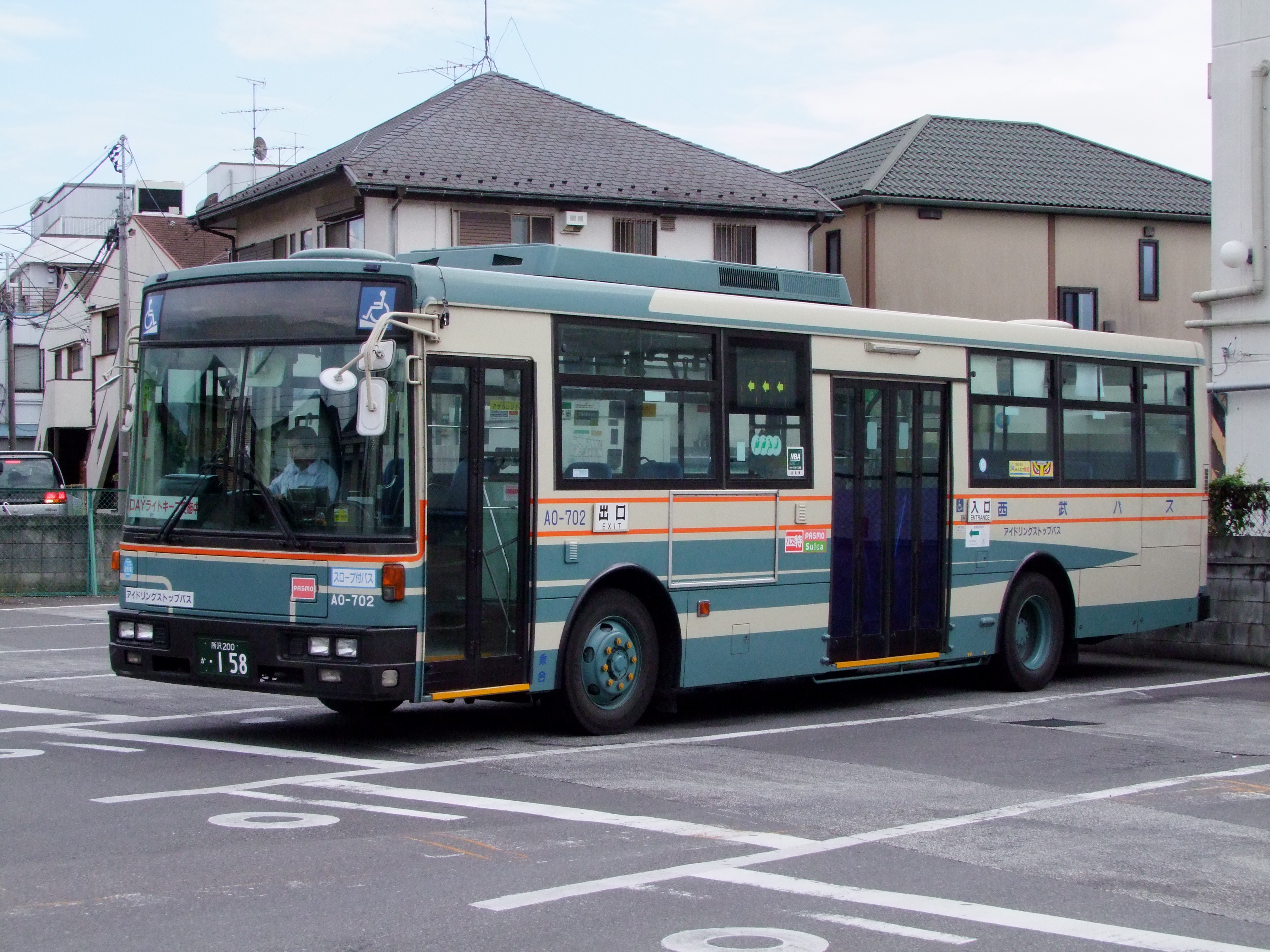 Seibu Bus No.A0-702 (Nissan Diesel UA). In Hibarigaoka-eki Kitaguti Yard.